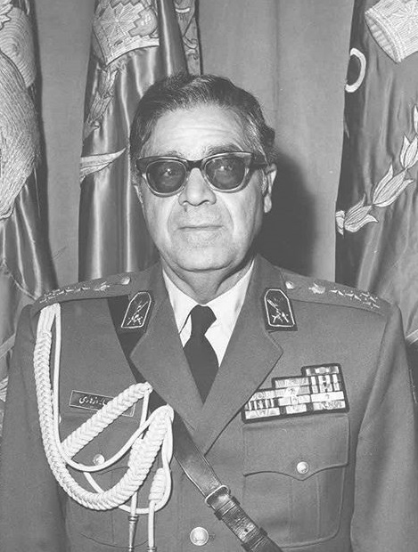 Gholam Reza Azhari